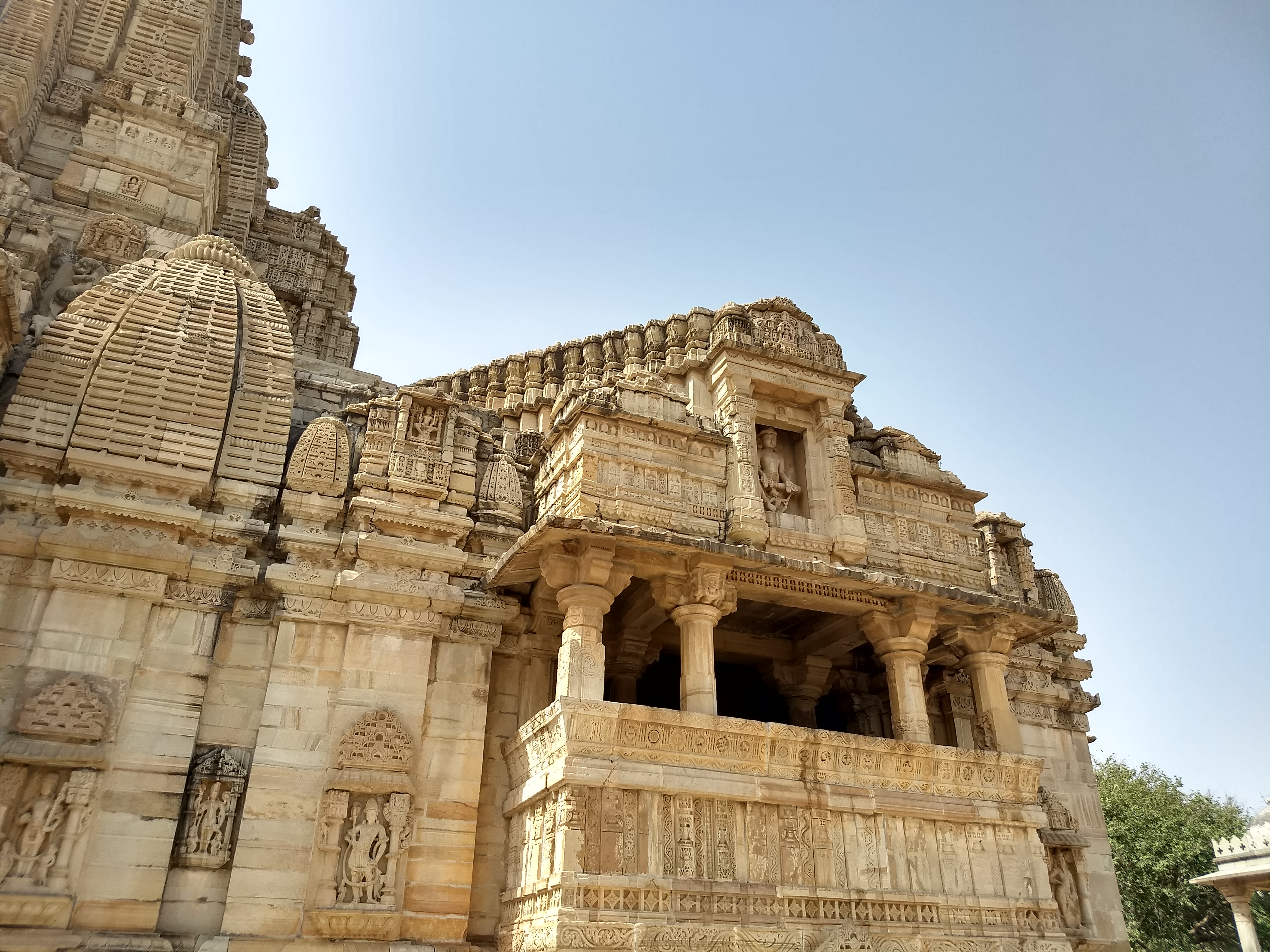 The Temple resonates the craftsmanship of its time. Such detail and precision only shows the strong cultural values prevalent among people in those times which cant be rivalled to the modern works. The temple itself is calm and peaceful as is with every temple in India. It is symbol of History for the works and designs are so soundly correct that it has stood against deterioration.